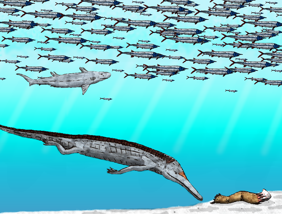 The giant teleosaur Machimosaurus stumbles arcross the bitten off frontleg of a Cetiosauriscus (the carcass was probably torn to pieces by a big pliosaur), while the shark Hybodus (originally swimming along with a school of Aspidorhynchus) waits for the teleosaur to go, so that he can eat the remaining parts. This scene is supported by fossil finds which were done in Europe. The layers in which the fossils were found date from te Jurassic-Cretaceous border.